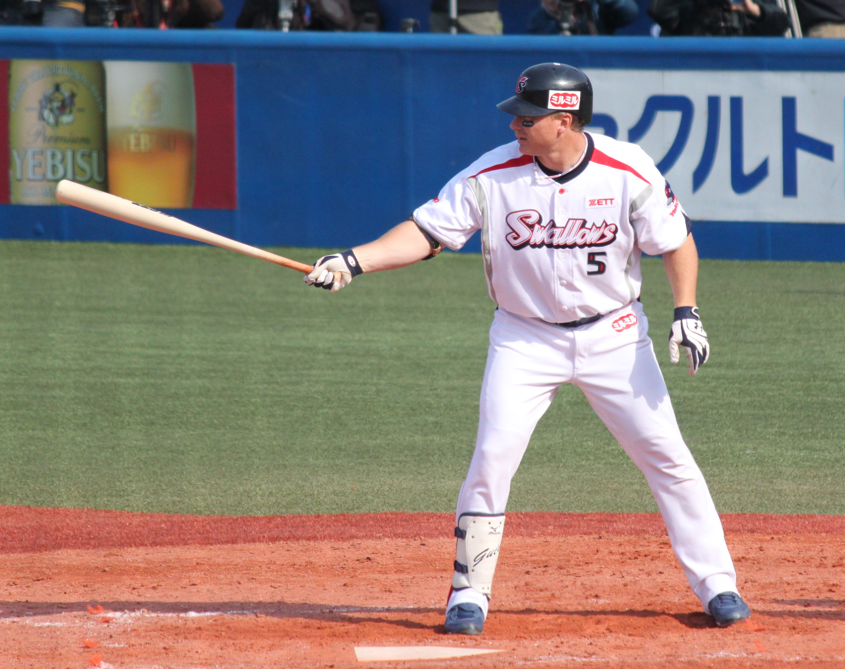 Aaron Guiel, outfielder of the Tokyo Yakult Swallows, at Meiji Jingu Stadium.